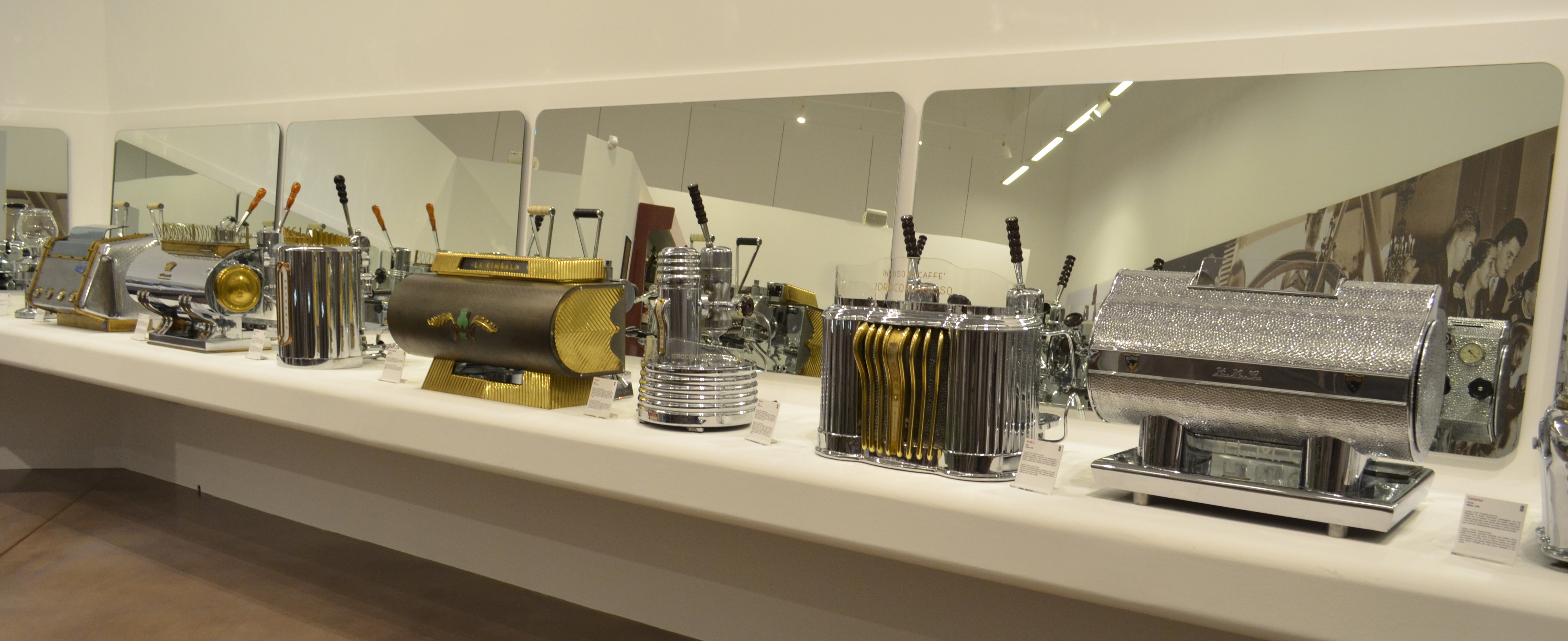 Historical Espresso machines on display in the Coffee Machines Museum (MUMAC), Binasco, Province of Milan - Italy